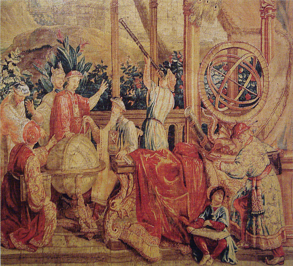 Les_Astronomes_Jesuit_astronomers_with_Chinese_scholars_Beauvais_18th_century.